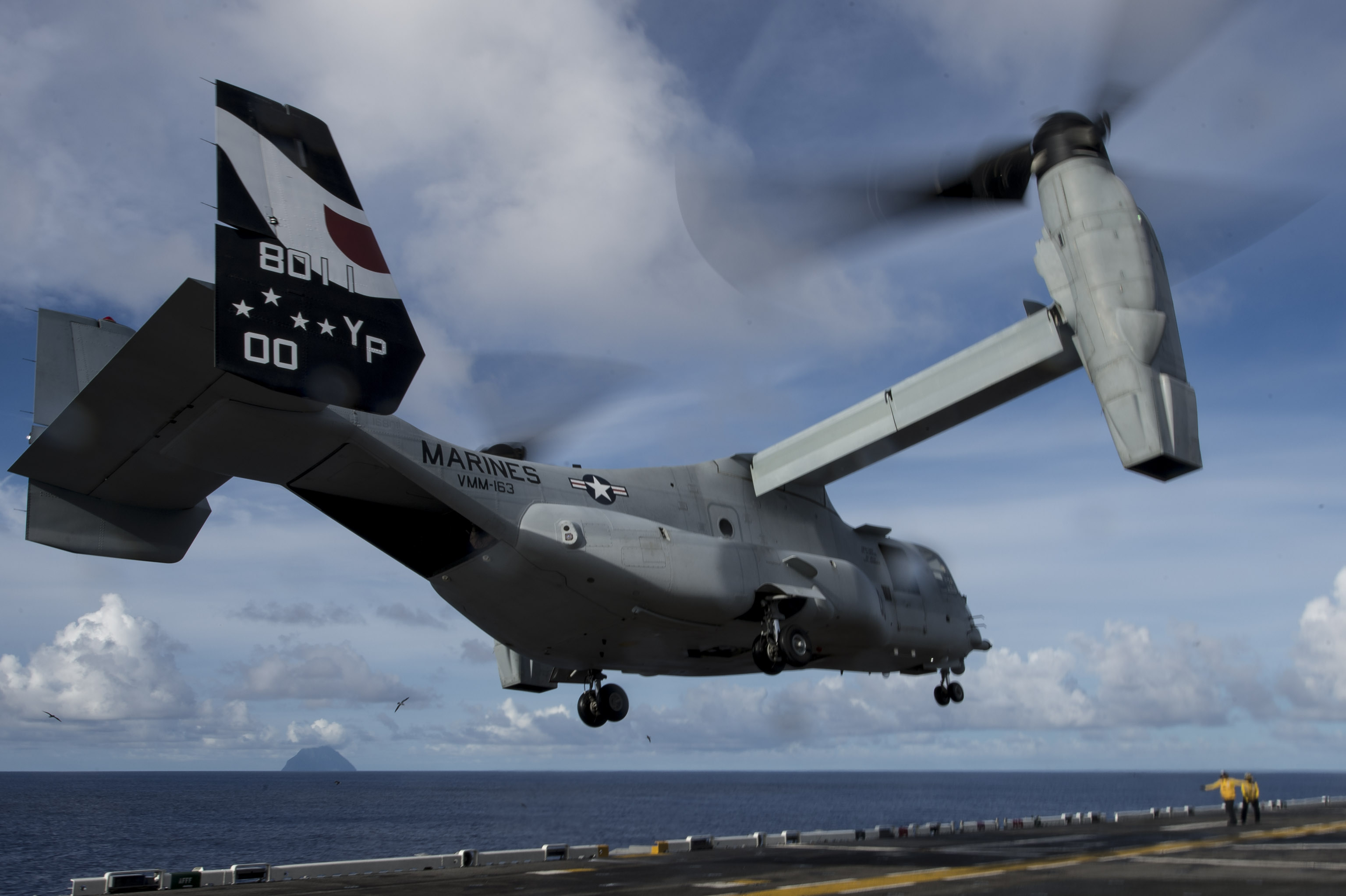 PACIFIC OCEAN (Aug. 16, 2014) An MV-22 Osprey attached to Marine Medium Tiltrotor Squadron (VMM) 163 (Reinforced) launches from the flight deck of amphibious assault ship USS Makin Island (LHD 8). Makin Island, the flagship of the Makin Island Amphibious Ready Group, is on a scheduled deployment with the 11th Marine Expeditionary Unit (11th MEU) to the U.S. 7th and 5th Fleet areas of responsibility. (U.S. Navy photo by Mass Communication Specialist 2nd Class Christopher Lindahl/Released) 140816-N-KL846-144 Join the conversation navylive.dodlive.mil